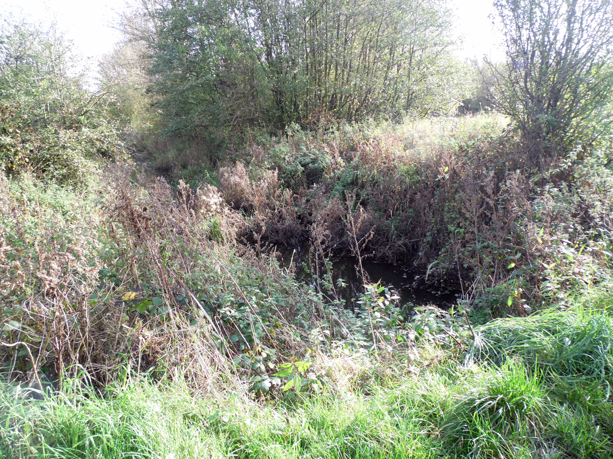 The track bed for the railway station, now filled up with water and surrounded by overgrowth, there is a information sign marking the area, but nothing can been seen on the surface. However, if you look by the waters edge, you will be able to see the brickwork from the remains of the platform wall just below the waters surface.